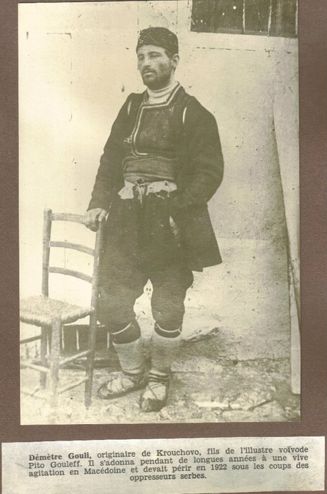 Dimitar Gulev from IMARO